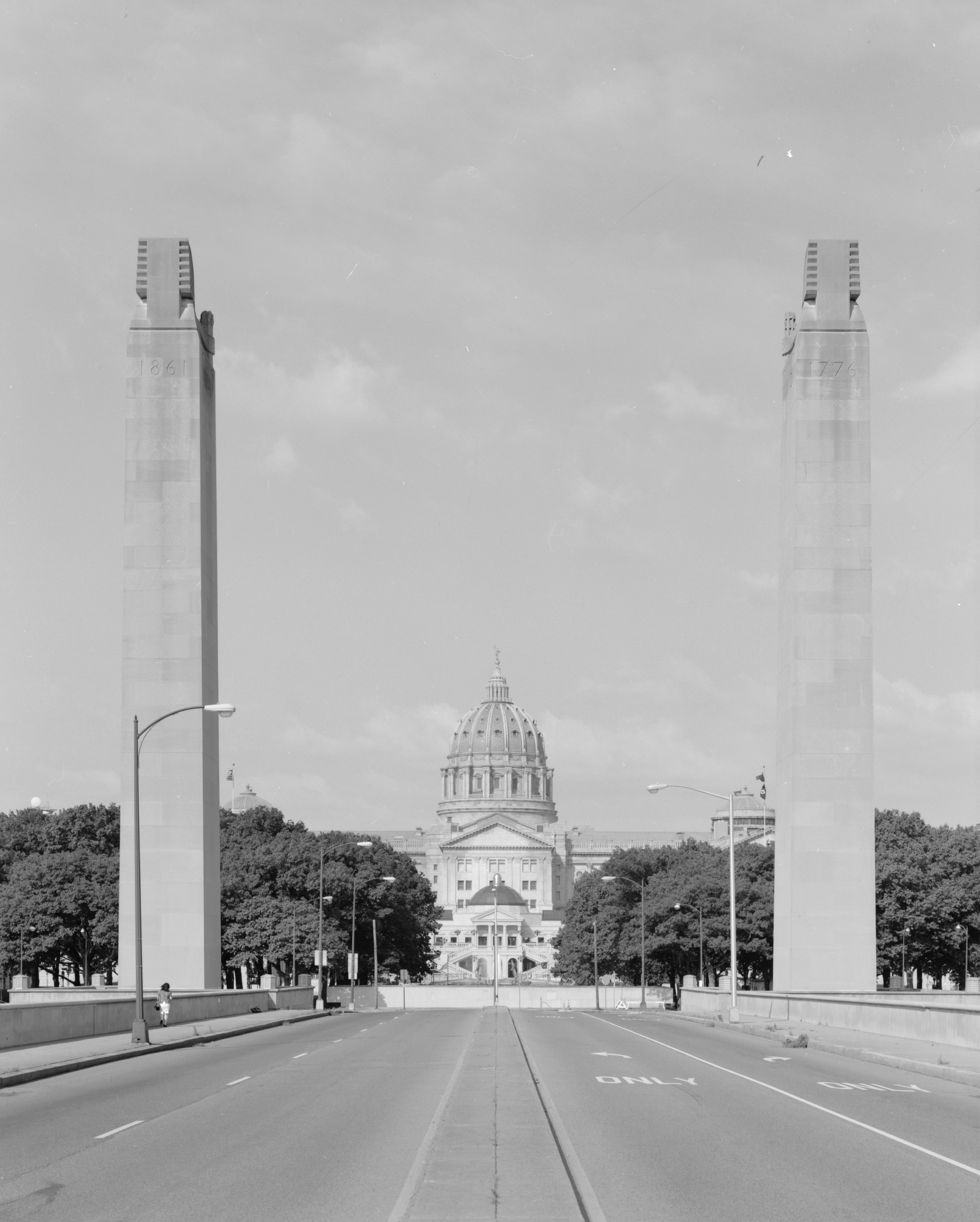 The State Street Bridge in Harrisburg, Pennsylvania with the Pennsylvania State Capitol. Original number was "HAER PA,22-HARBU,28-4", original caption was "Barrel view looking east, showing columns and state capitol."